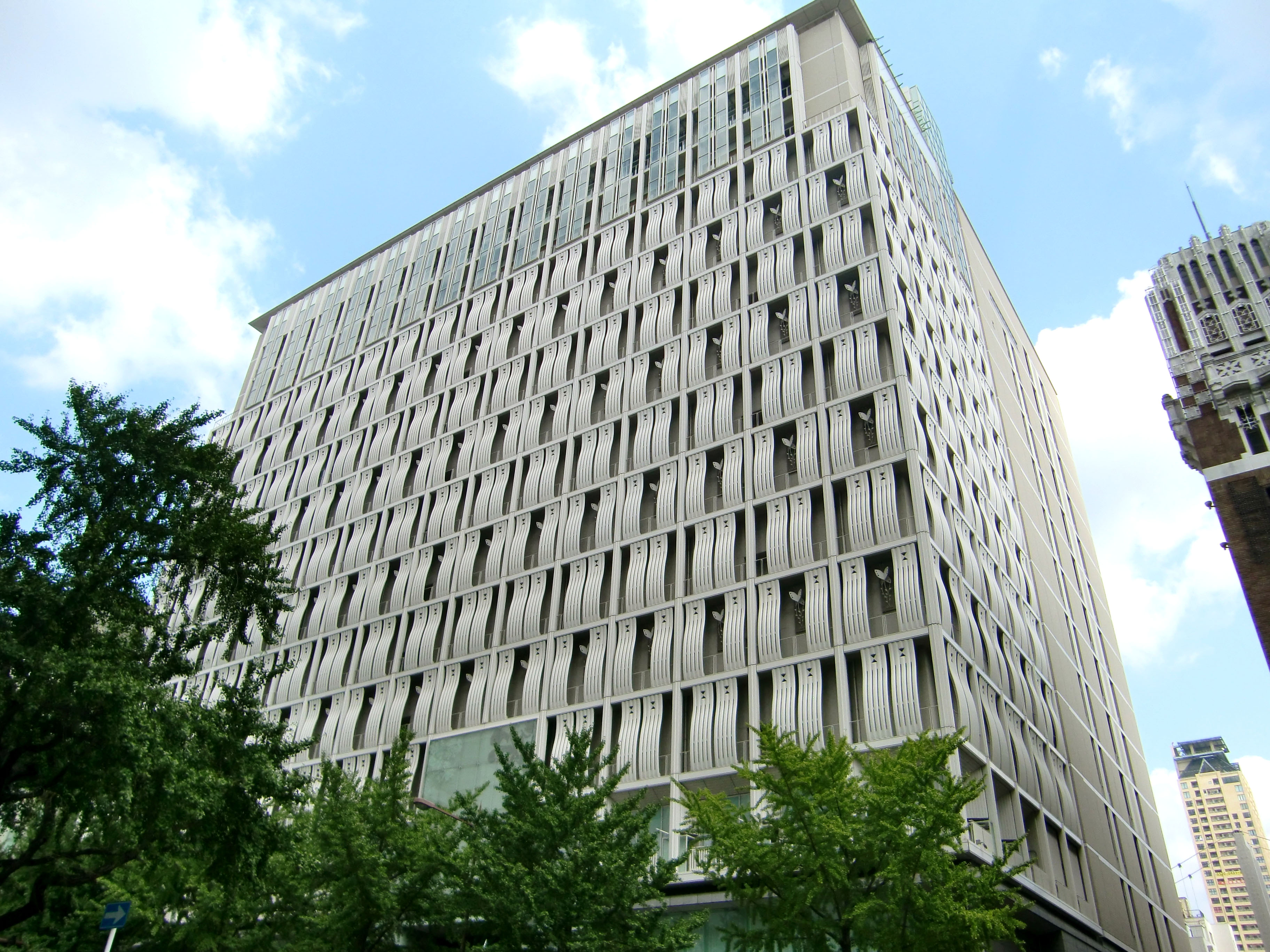 SOGO Shinsaibashi, 1-8-3 Shinsaibashisuji, Chuo-Ku, Osaka City, Osaka, Japan.